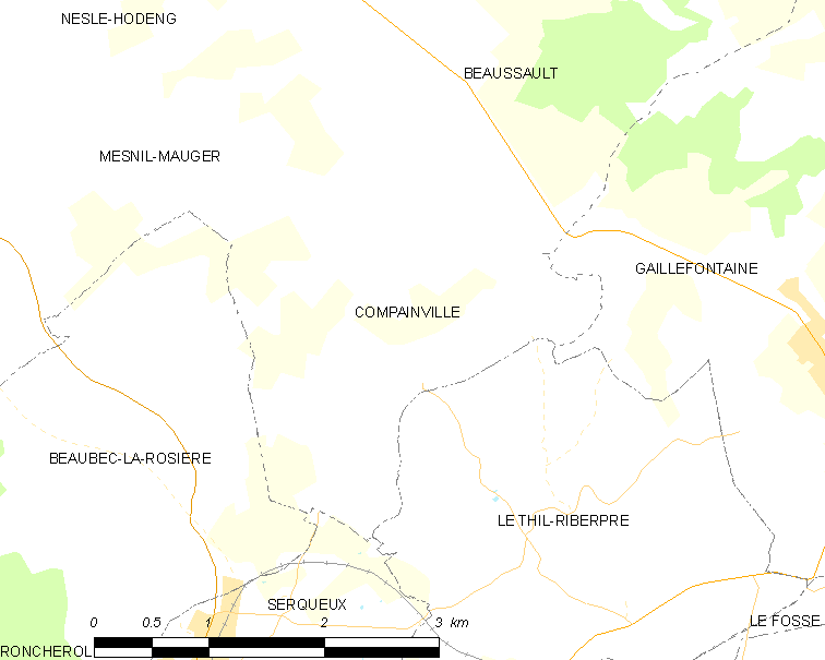 Map of French municipality Compainville